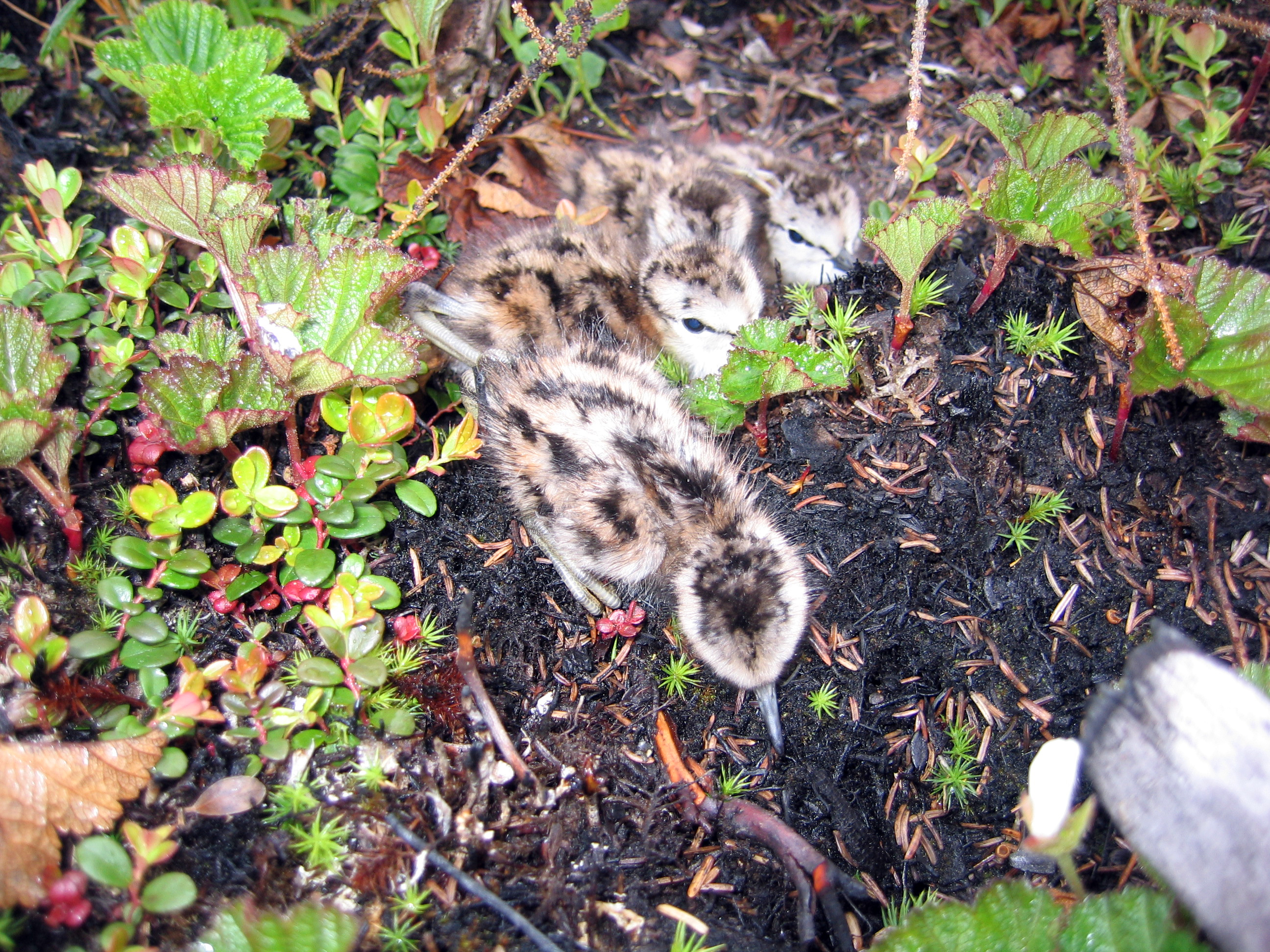 Lesser Yellowlegs (Tringa flavipes) chicks